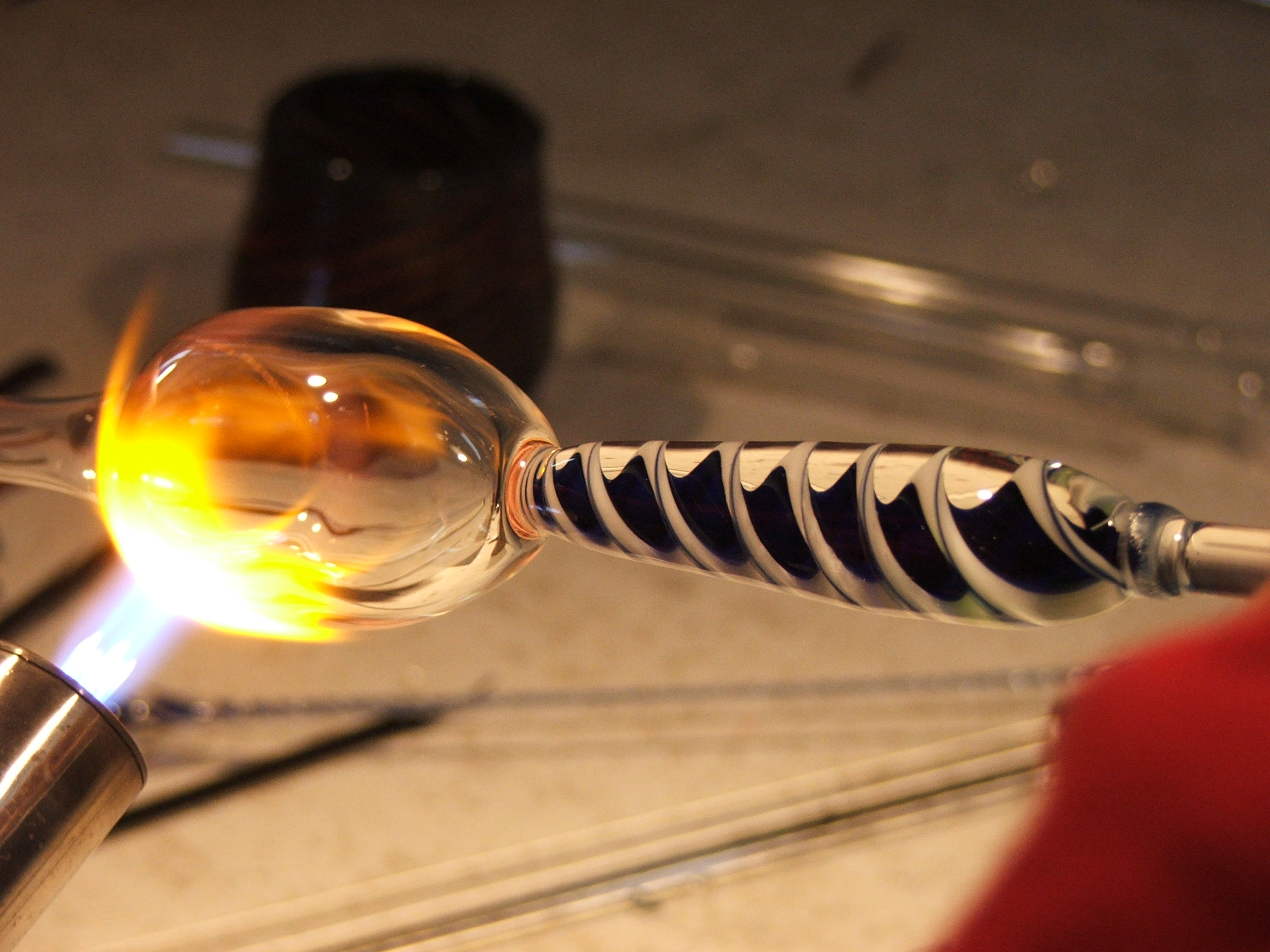 glassblowing